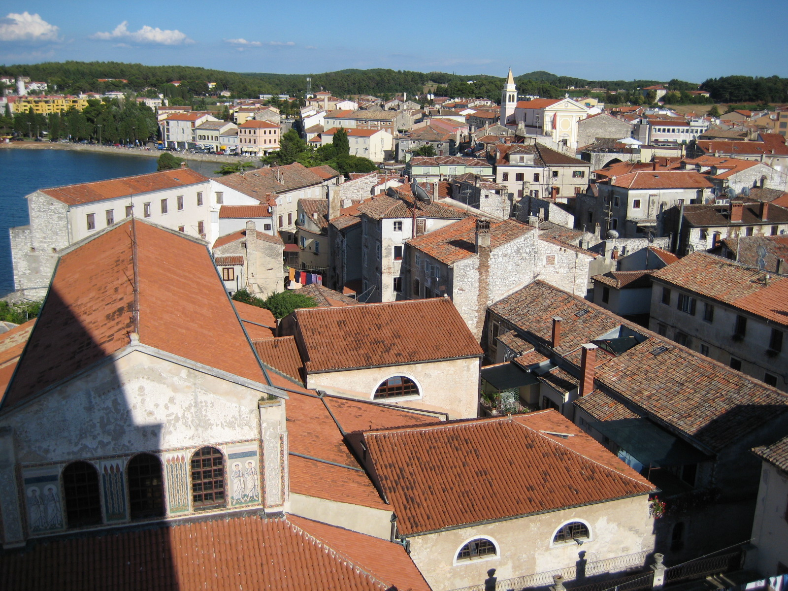 Poreč - panorama from the Euphrasian Basilica, Croatia